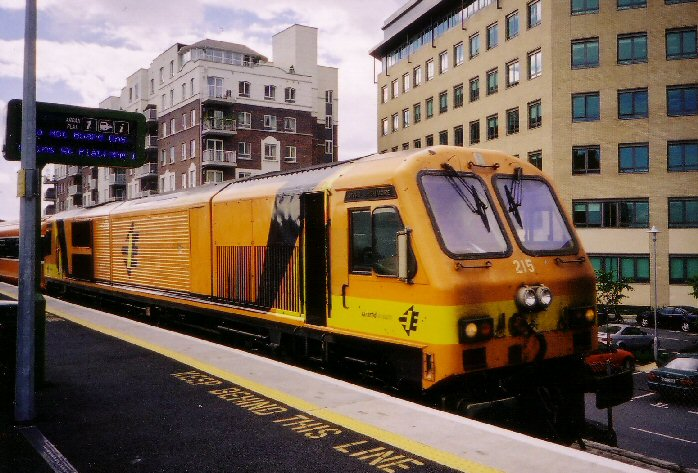 Iarnród Éireann Class 201 General Motors 3,200hp Loco. No. 215 at Grand Canal Dock DART station, 2001.